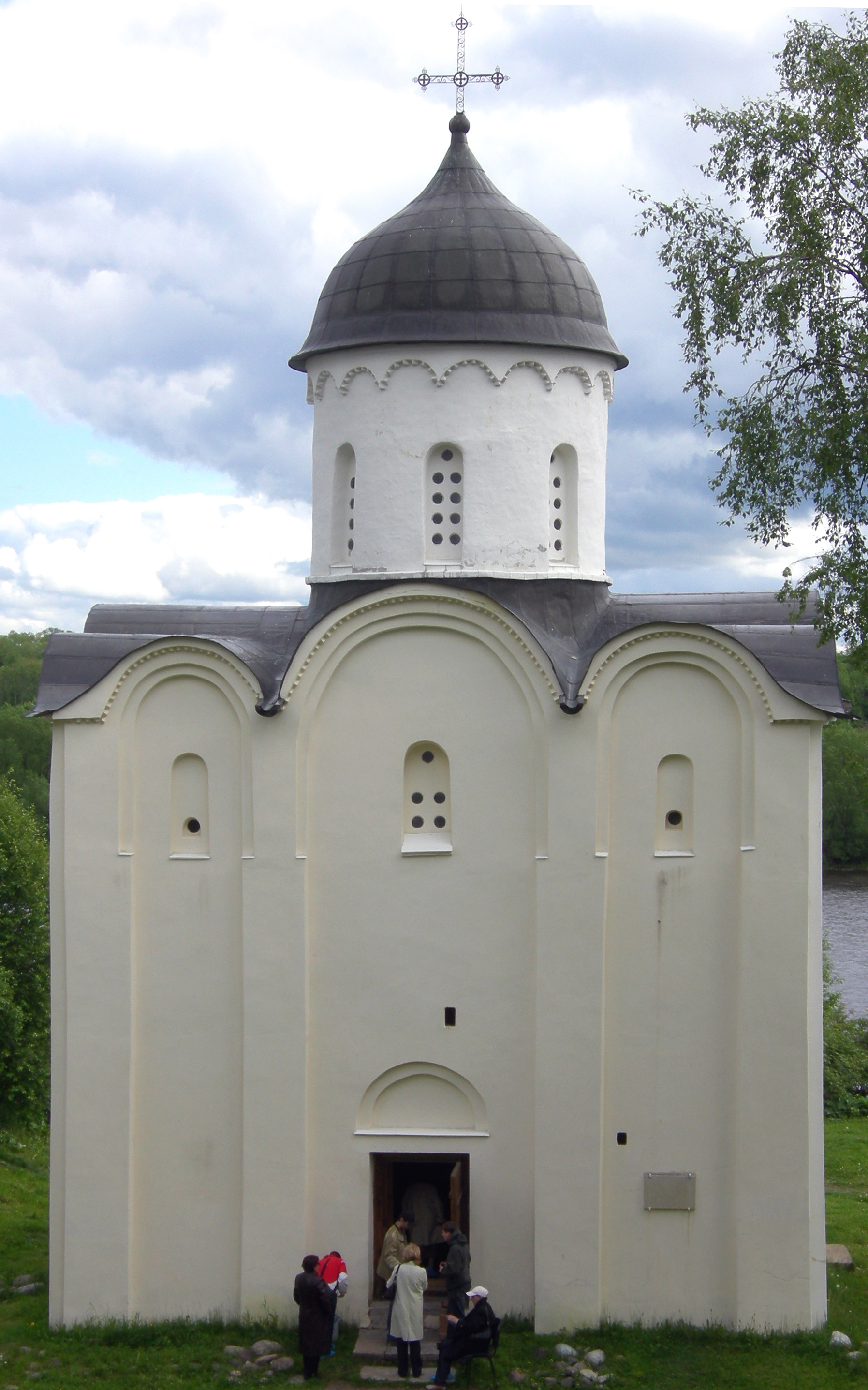 St. George's Church in the Ladoga Fortress, Staraya Ladoga, Russia.